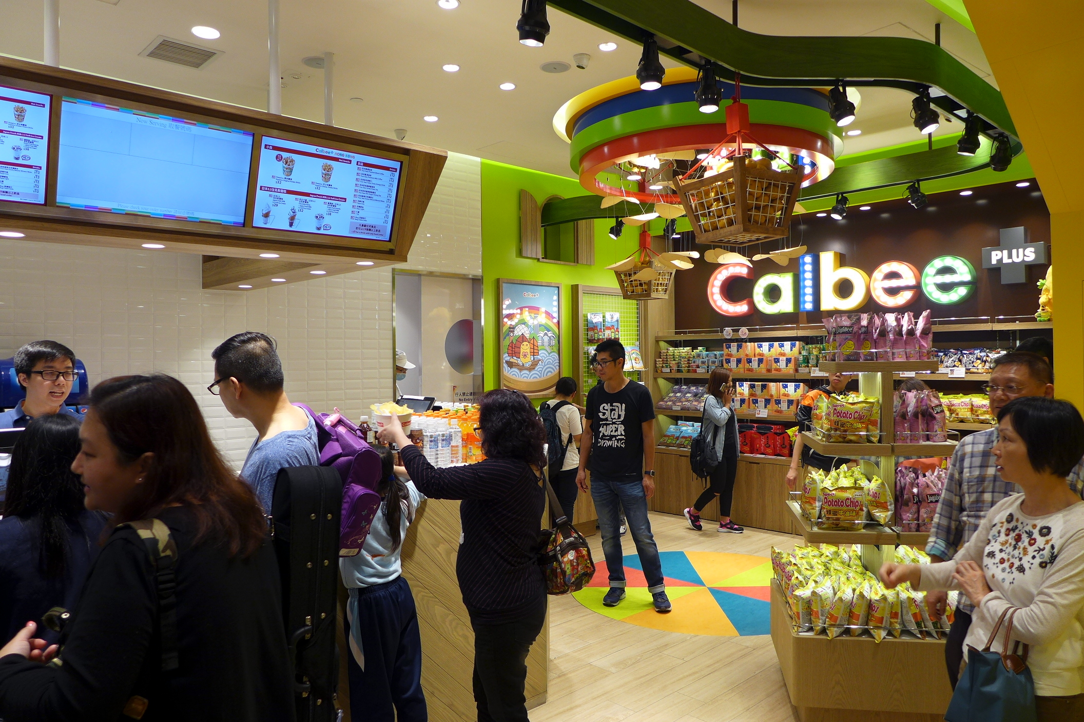 Okashi Galleria x Calbee Plus Interior, Lee Tung Avenue